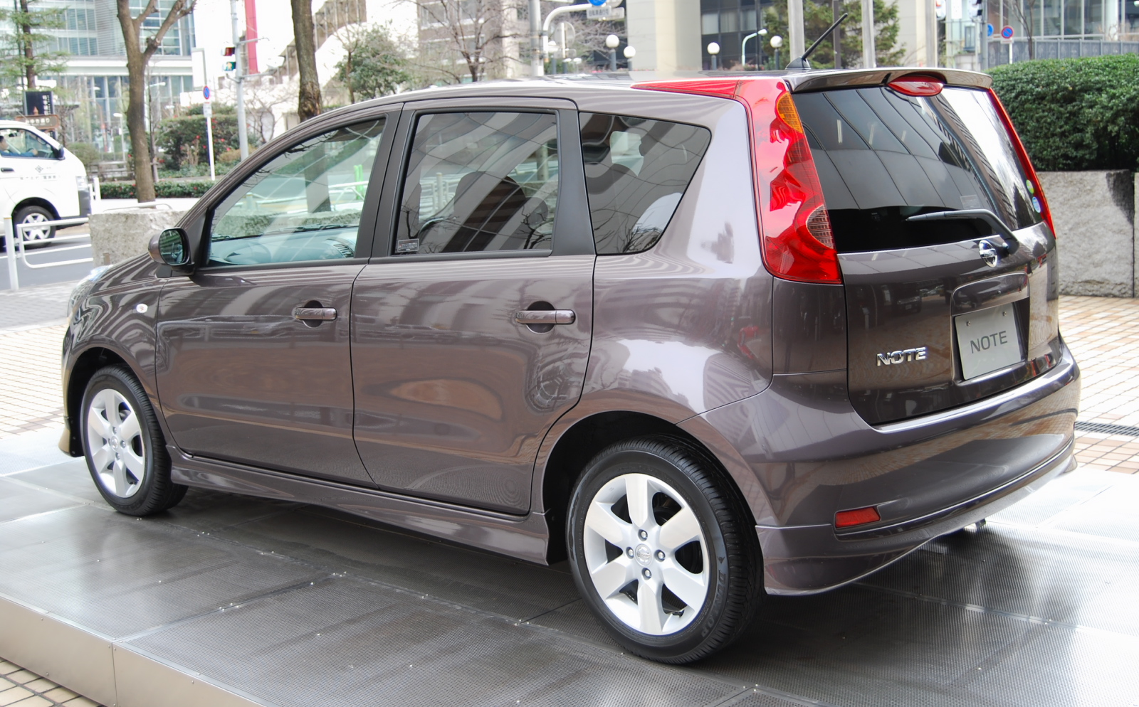 2008 Nissan Note photographed in Nissan Gallery (Chuo, Tokyo)